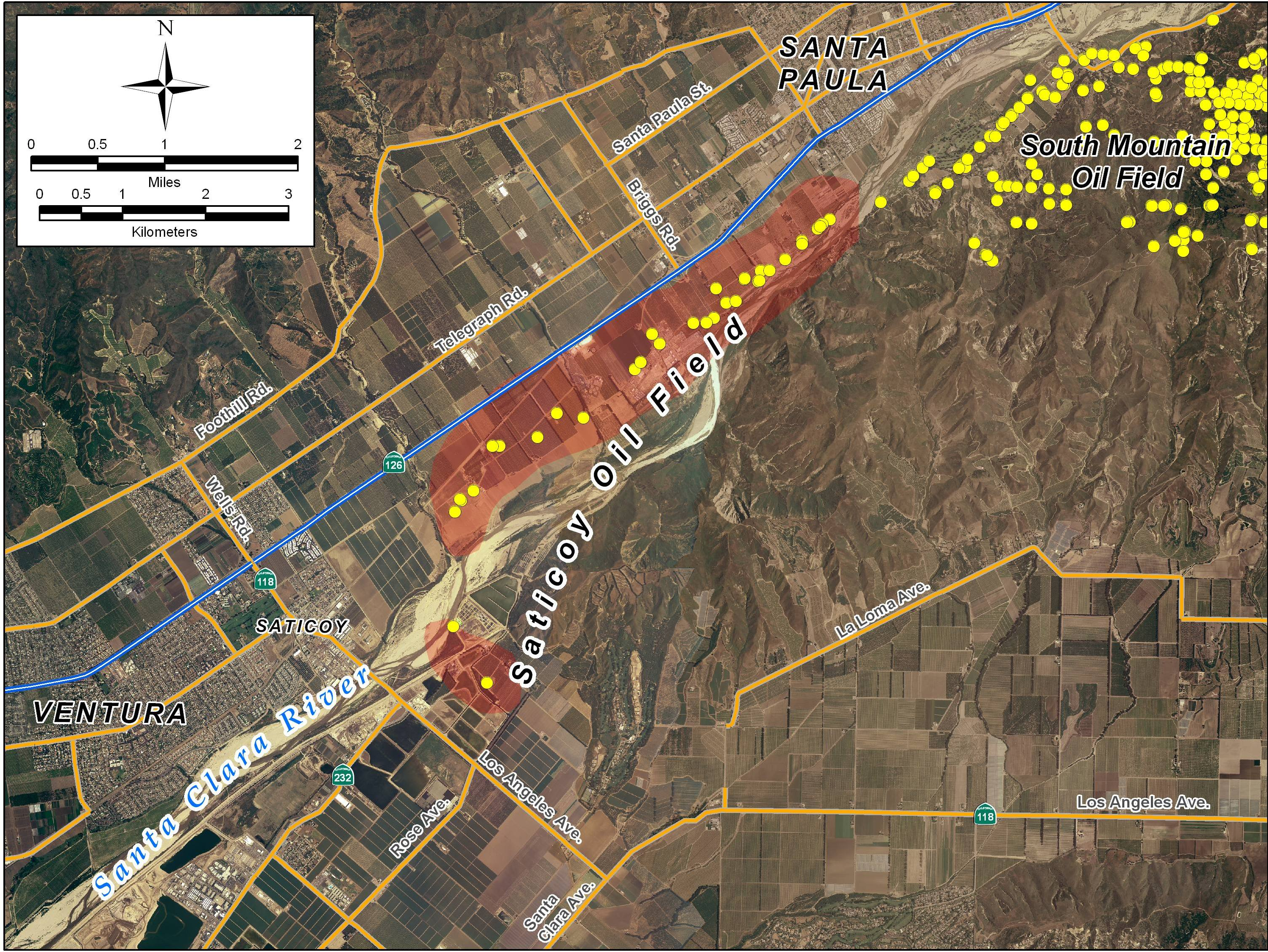 Detail of Saticoy field; by self using ArcGIS 9.3, public domain data (USGS, DOE, USDA NAIP, etc.)